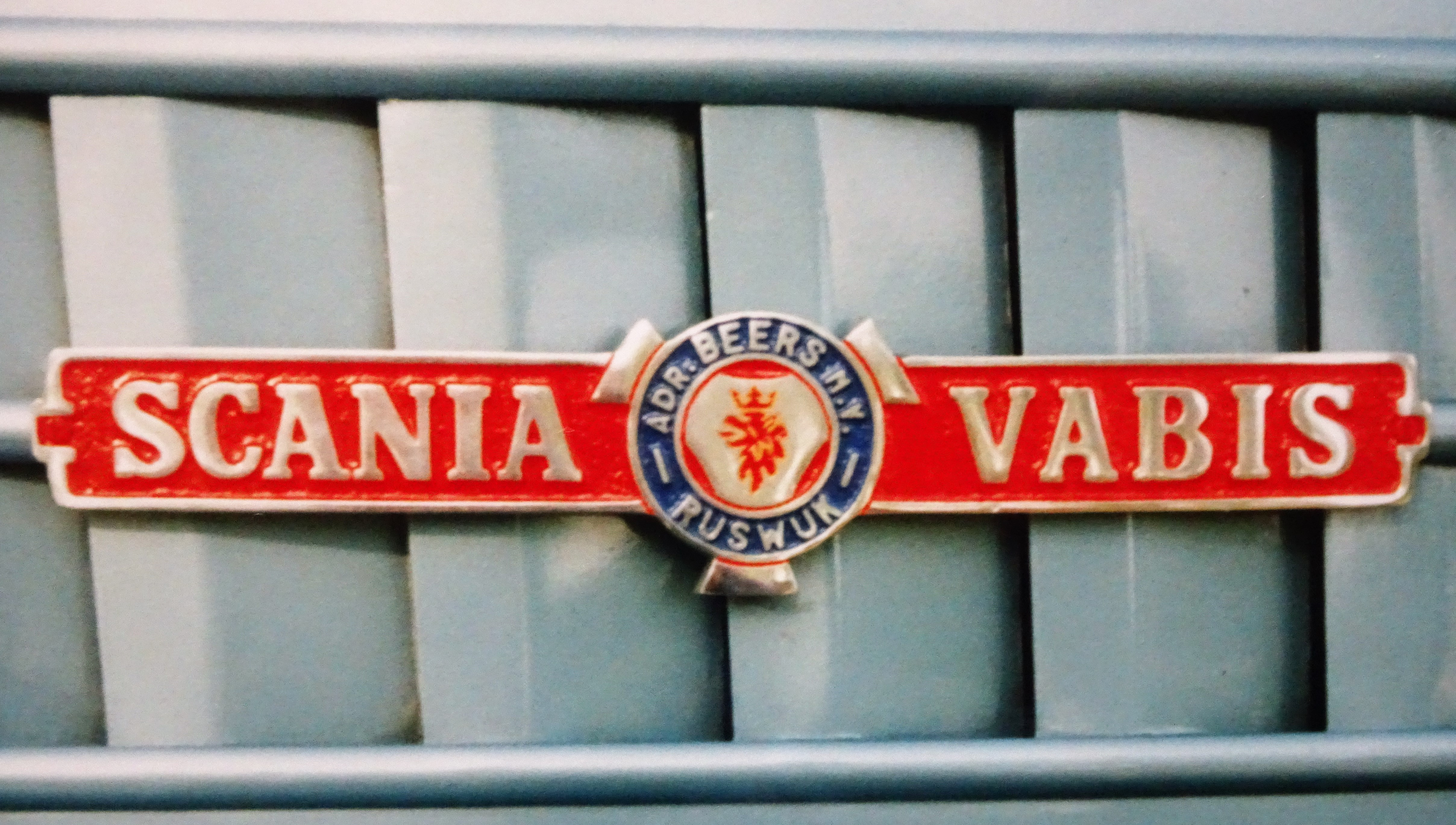 Emblem Scania-Vabis, mounted on both sides of the hood of the engine of the Scania-Vabis cars, assembled by Adriaan Beers N.V. in Rijswijk (Z.H.).